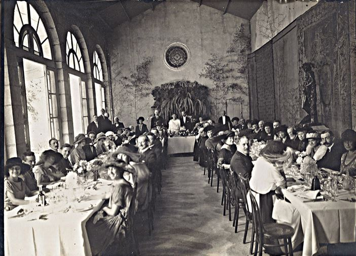 Wedding banquet held in the orangerie of Château d'Alphéran in 1921